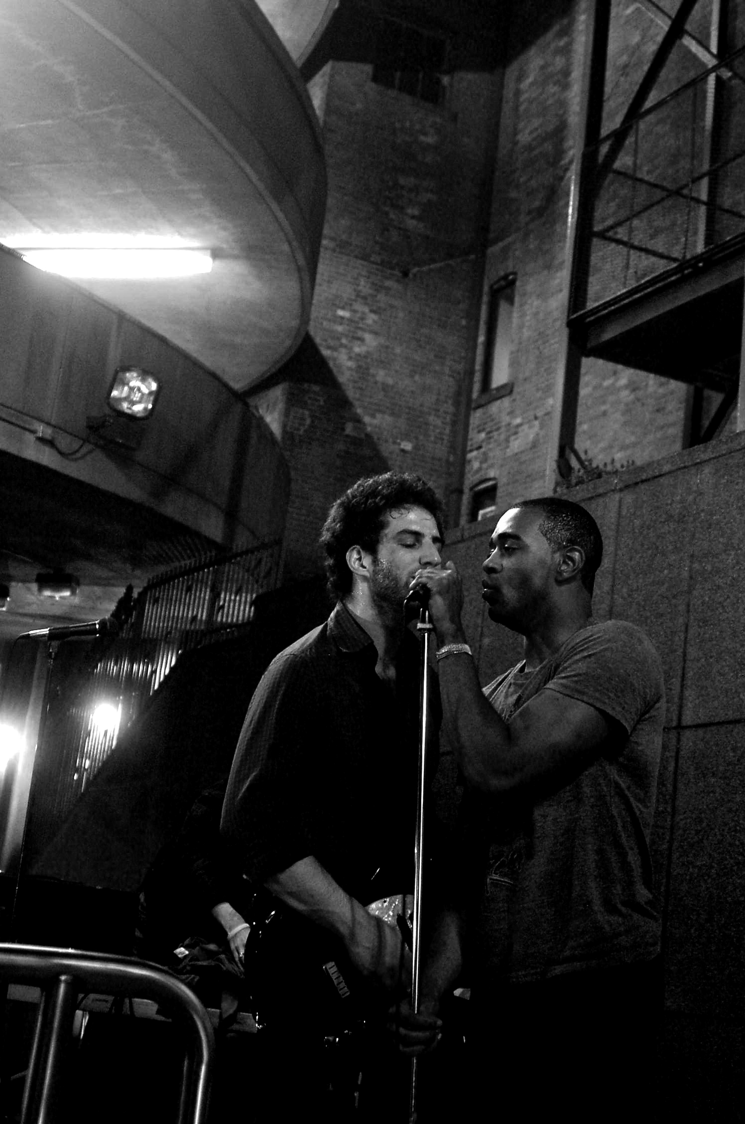 The Smyrk playing where they first formed on June 17th, 2009